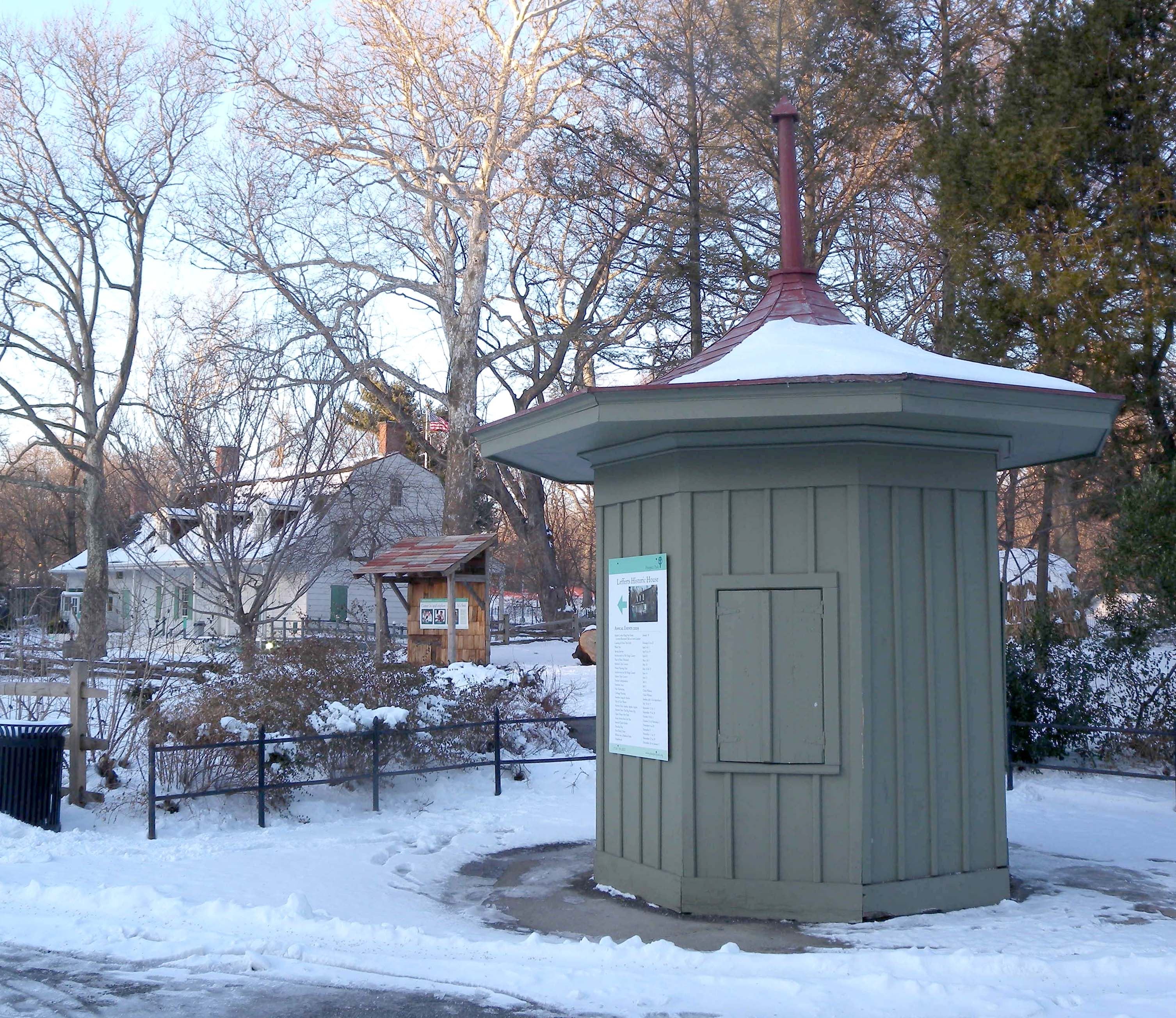 Looking northeast at former tollbooth of the plank road now called Flatbush Avenue with Lefferts Historic House in background.